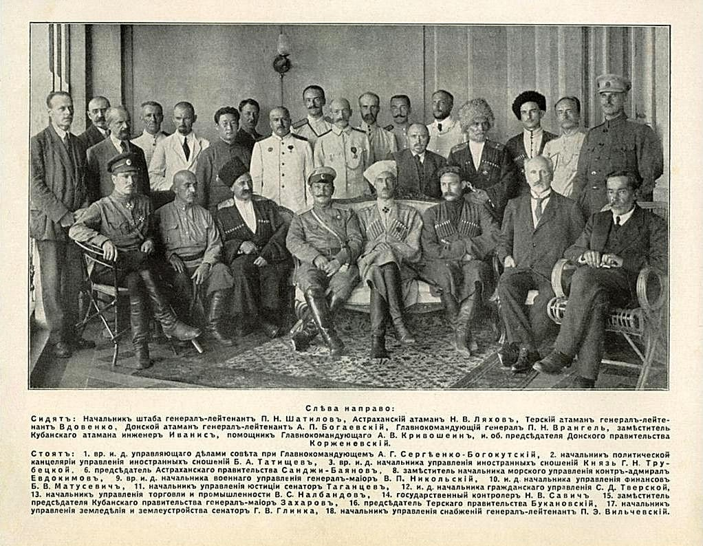 The Government of South Russia. Crimea, Sevastopol, 1920. Sitting, from left to right: 1 - Chief of Staff Major General P.N. Shatilov; 2 - Astrakhan Ataman N. V. Lyakhov; 3 - Terek Ataman Lieutenant General G. A. Vdovenko; 4 - Don Ataman Lieutenant General A. P. Bogaevsky; 5 – Сommander- in-Chief of the Russian Army General P. N. Wrangel; 6 - Deputy Kuban Ataman engineer V. N. Ivanis; 7 - Assistant of Сommander- in-Chief, Head of Government A. V. Krivoshein; 8 – Acting Chairman of the Don Government Korzhenevskiy. Standing, from left to right: 1 – Acting Director of Council Affairs by Сommander- in-Chief A. G. Sergeenko-Bogokutskiy; 2 – Chief of Political Office of the Department of Foreign Affairs B. A. Tatishchev; 3 – Acting Director of Foreign Affairs Prince G. N. Trubetskoy; 6 - Chairman of the Astrakhan Government Sanji-Bayanov; 8 - Deputy Chief of the Naval Department Counter Admiral S. V. Evdokimov; 9 – Acting Chief of the Military Department Major General V. P. Nikolskiy; 10 – Acting Head of Finance B. V. Matusevich; 11 - Head of the Department of Justice Senator N. N. Tagantsev; 12 – Acting Director of the Civil Department S. D. Tverskoy; 13 - Head of the Department of Trade and Industry V. S. Nalbandov; 14 - State Comptroller N. V. Savich; 15 - Vice-Chairman of the Kuban Government Major General I. A. Zakharov; 16 - Chairman of the Terek Government Bukanovskiy; 17 - Head of the Department of Agriculture and Land Management Senator G. V. Glinka; 18 - Head of Office Supplies Lieutenant General P. E. Vilchevskiy.